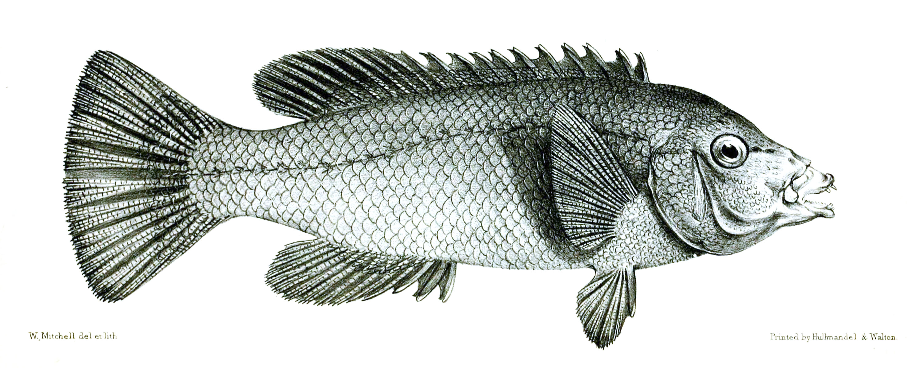 Western Blue Groper, from lateral.